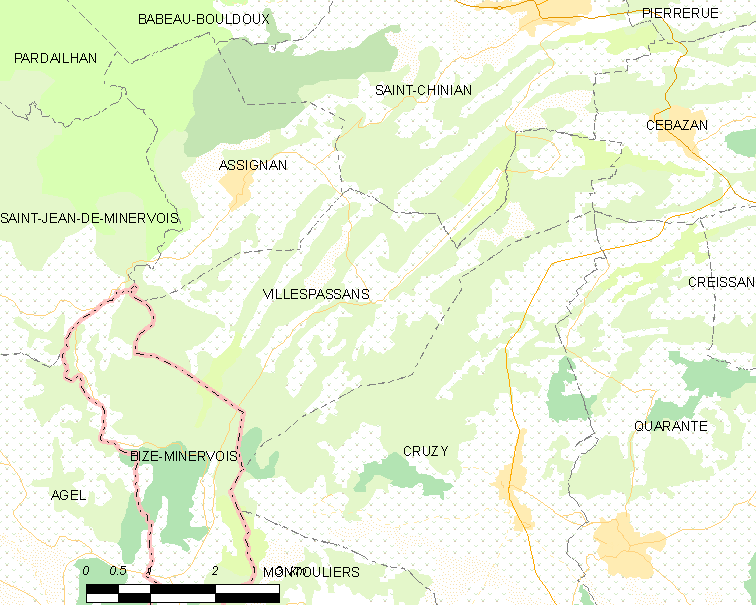 Map commune FR insee code 34339.png - Villespassans